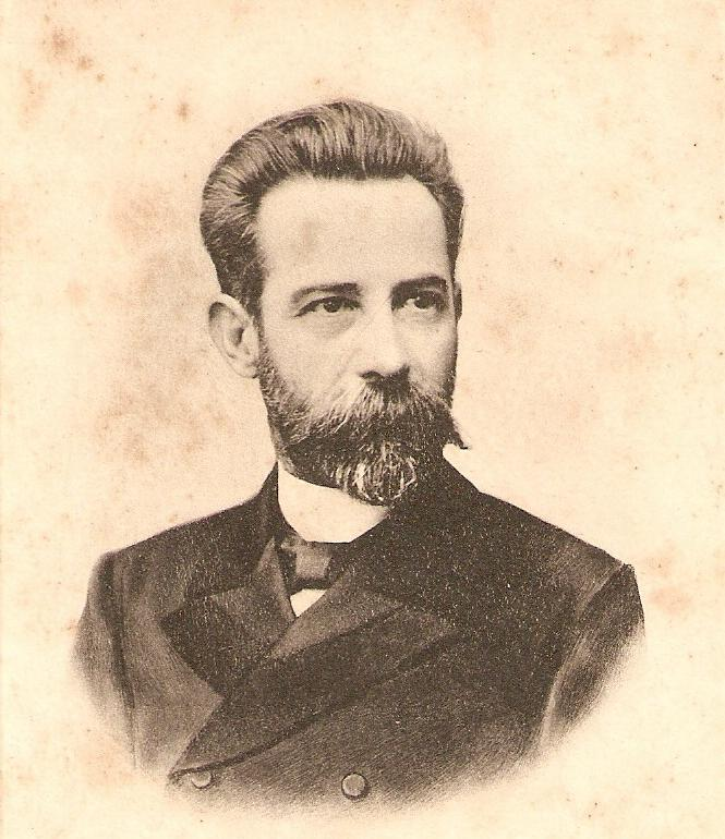 Manuel Florencio Mantilla